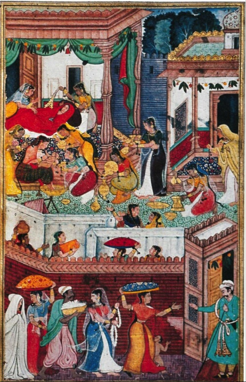 Ramayana